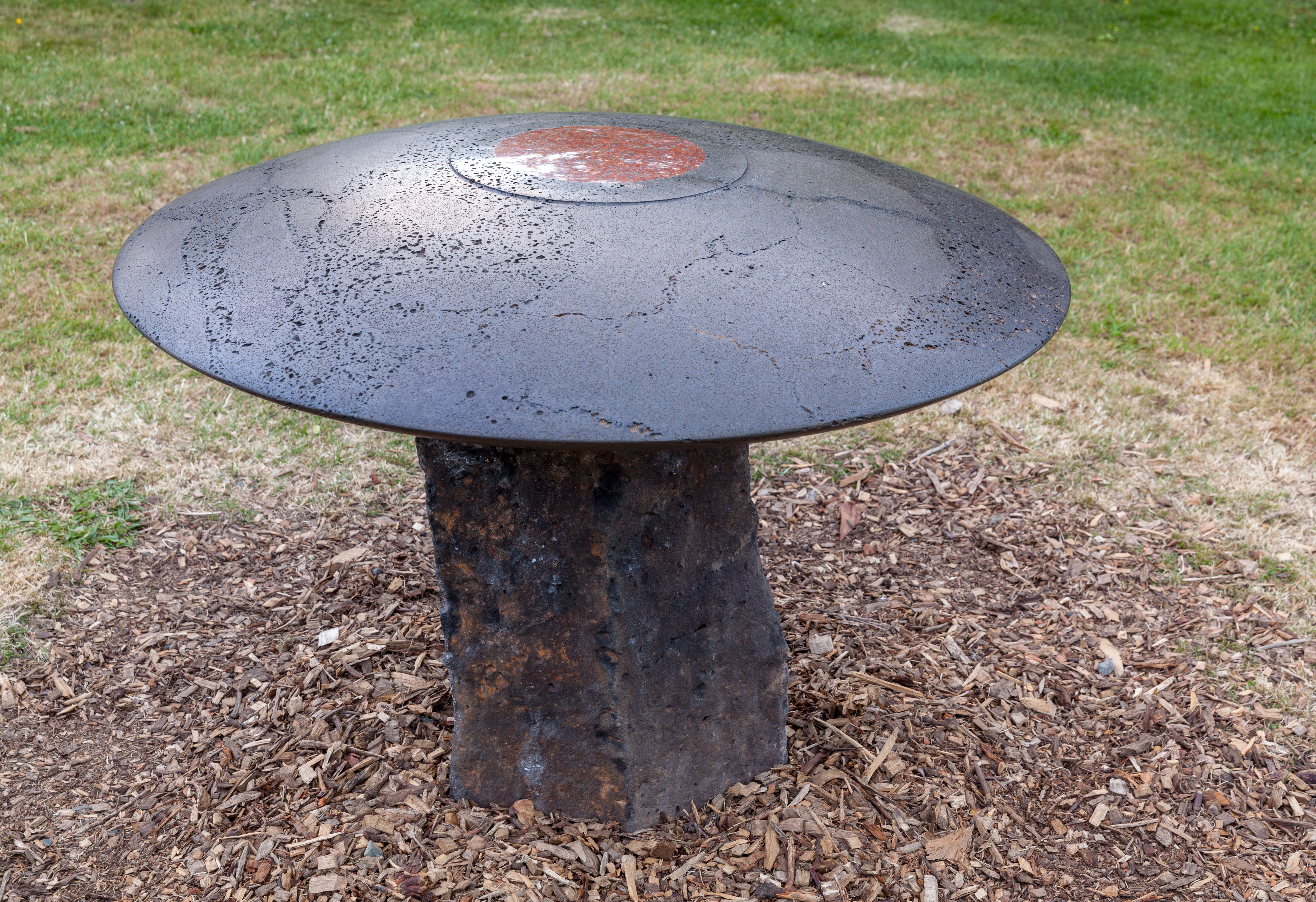 John Edgar, ONZM, 2015 Sculpture In The Gardens 2015/2016